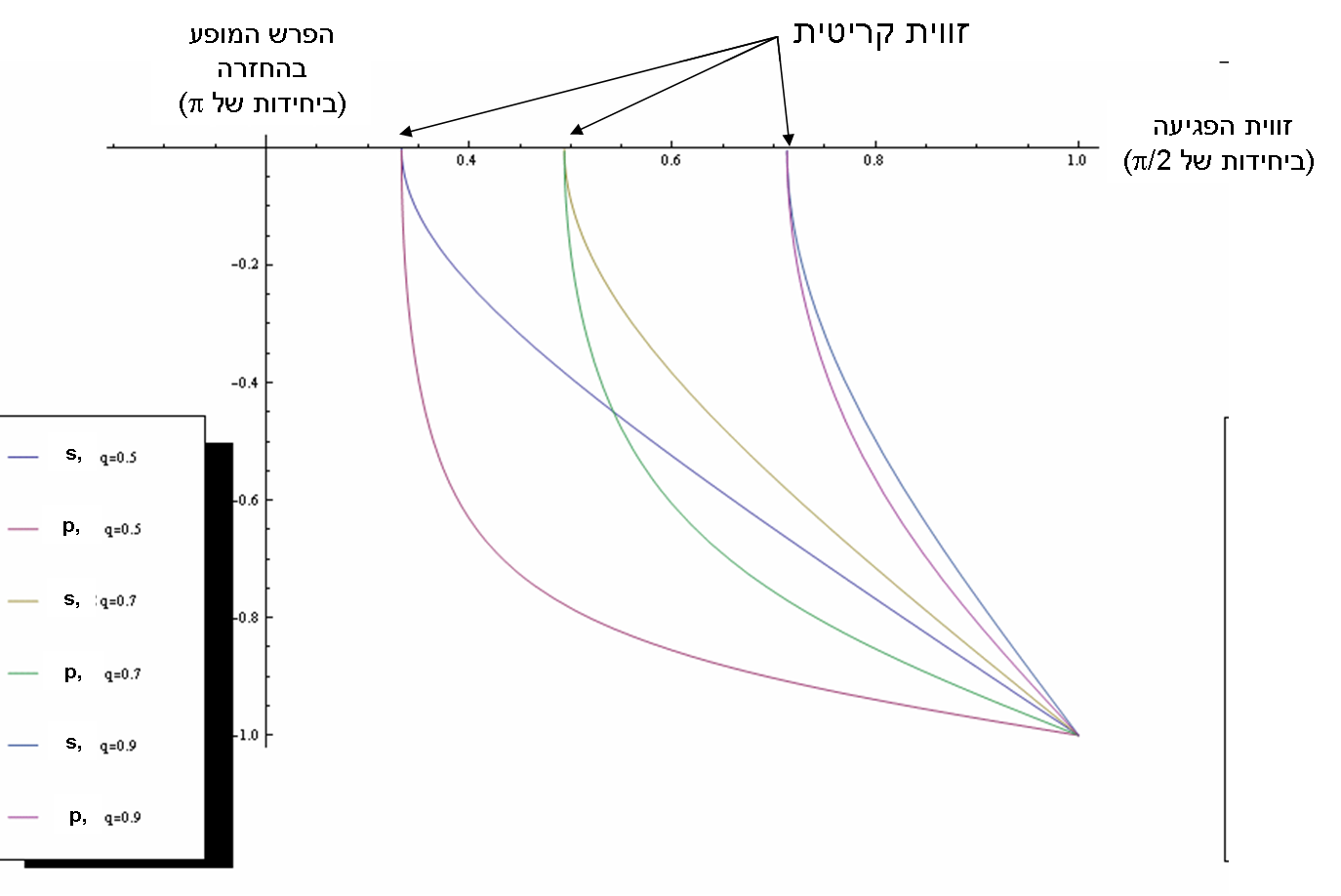 Relative phase upon total reflection for s and p polarizations